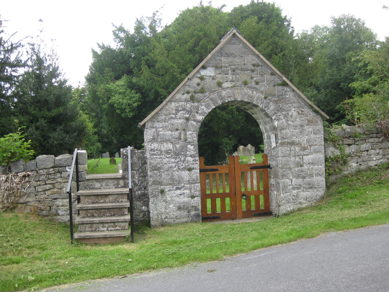 Lych Gate to the graveyard of Llandyssil OldChurch by Harold Hughes, of Bangor 1907